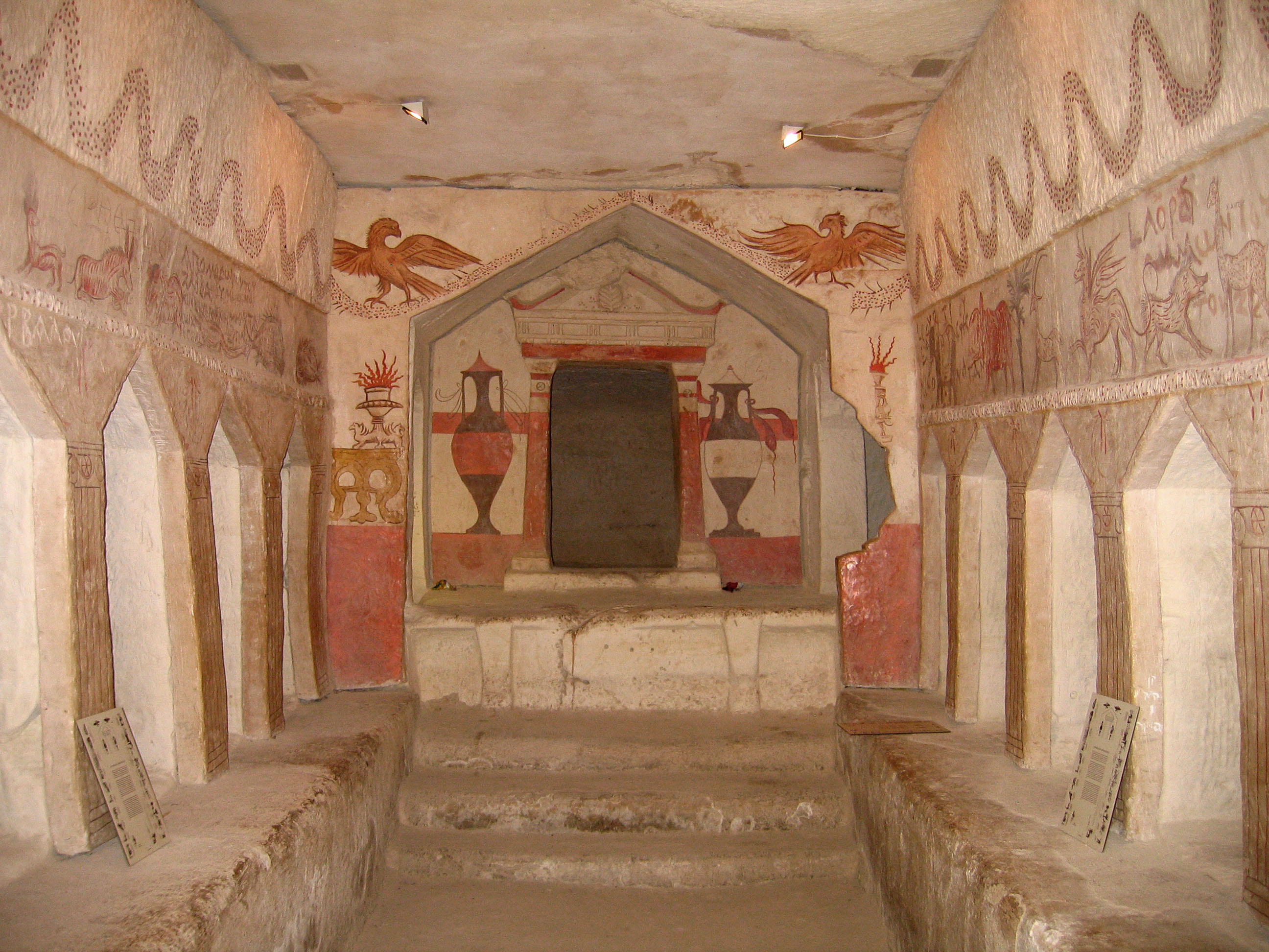 Sidonian Burial Caves: A series of impressive burial caves from the Hellenistic period (third–second centuries BCE), located at the foot of Tel Maresha and featuring reconstructed wall paintings. The paintings, proof of the presence of other cultures at Maresha, depict hunting scenes with wild and mythological creatures and shed light on ancient artistic techniques and crafts.